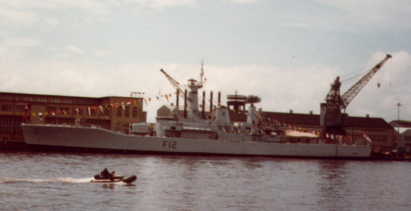 HMS Achilles (F12) at Chatham, Kent (UK), on 3 May 1981.